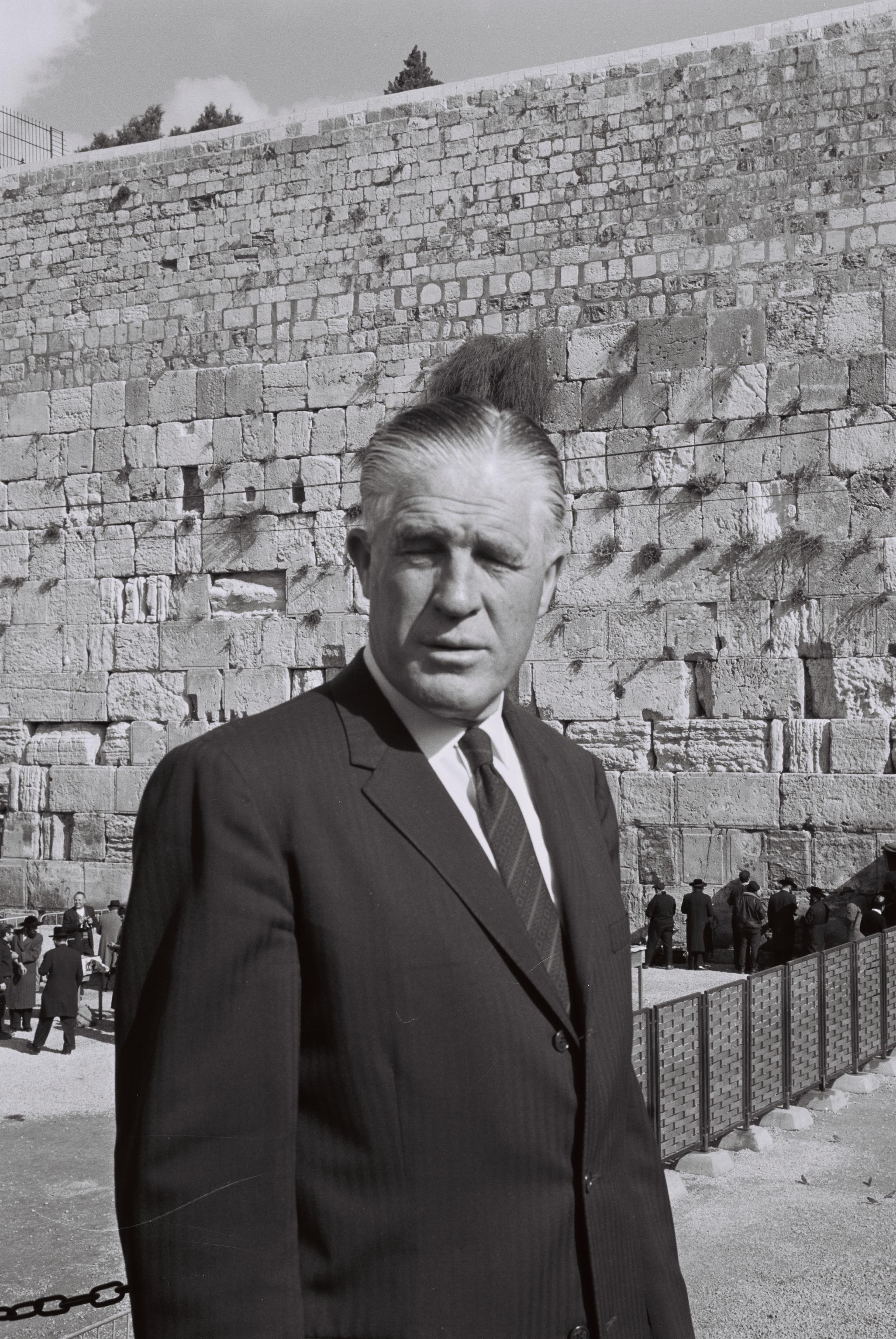 Michigan Governor George W. Romney visits in the Western Wall at the Old city of Jerusalem, 21 December 1967